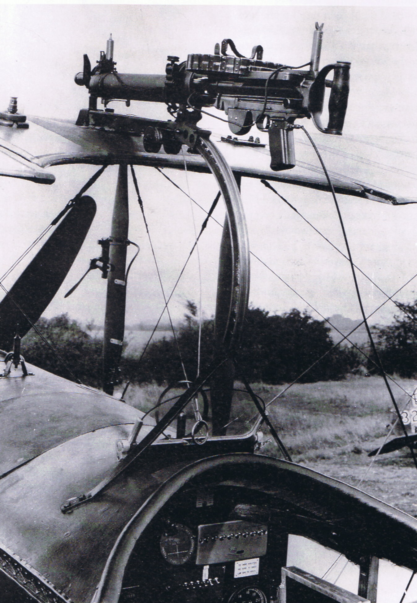 Royal Air Force (1918) - Foster Mounted Lewis Gun on AVRO 504K Night Fighter.